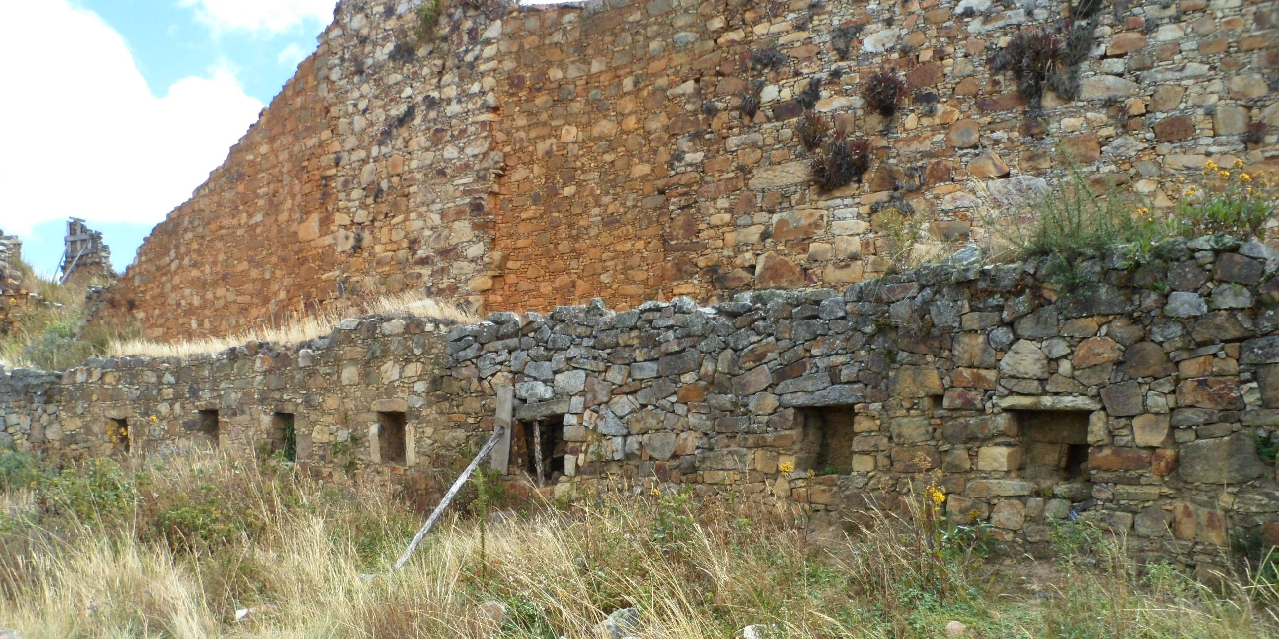 Archaeological complex about 30 minutes of Huamachuco, between 350 AC - 1100 AC